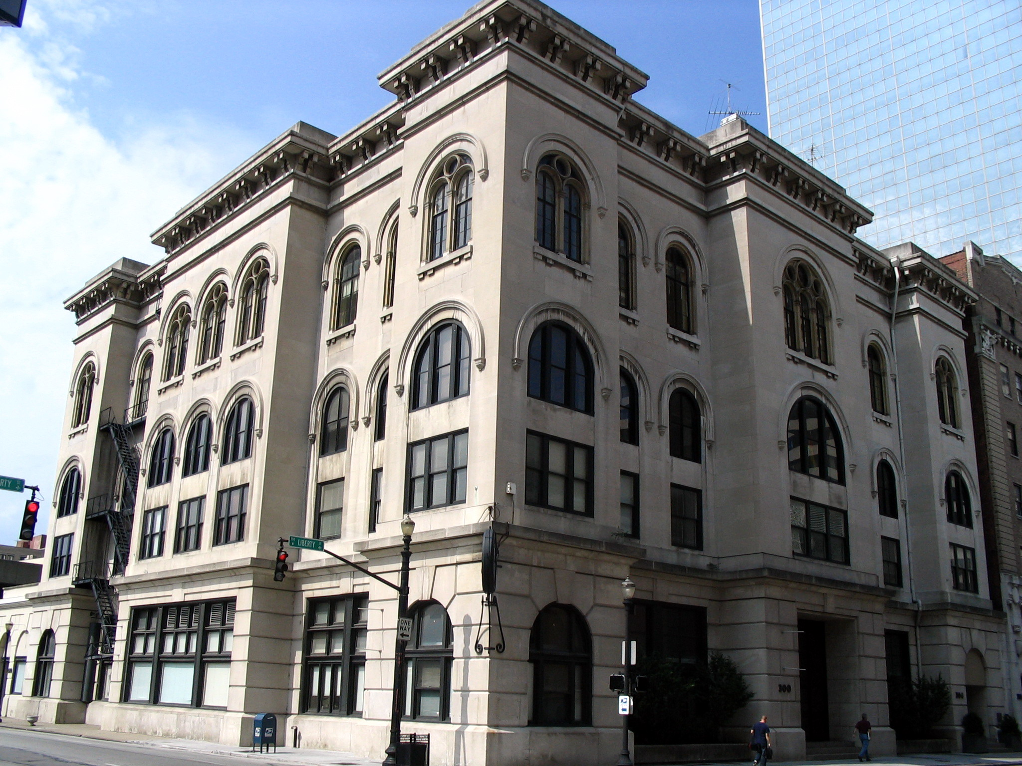 The Old U.S. Customshouse and Post Office in Louisville, Kentucky (c.1855). It is listed on the National Register of Historic Places.